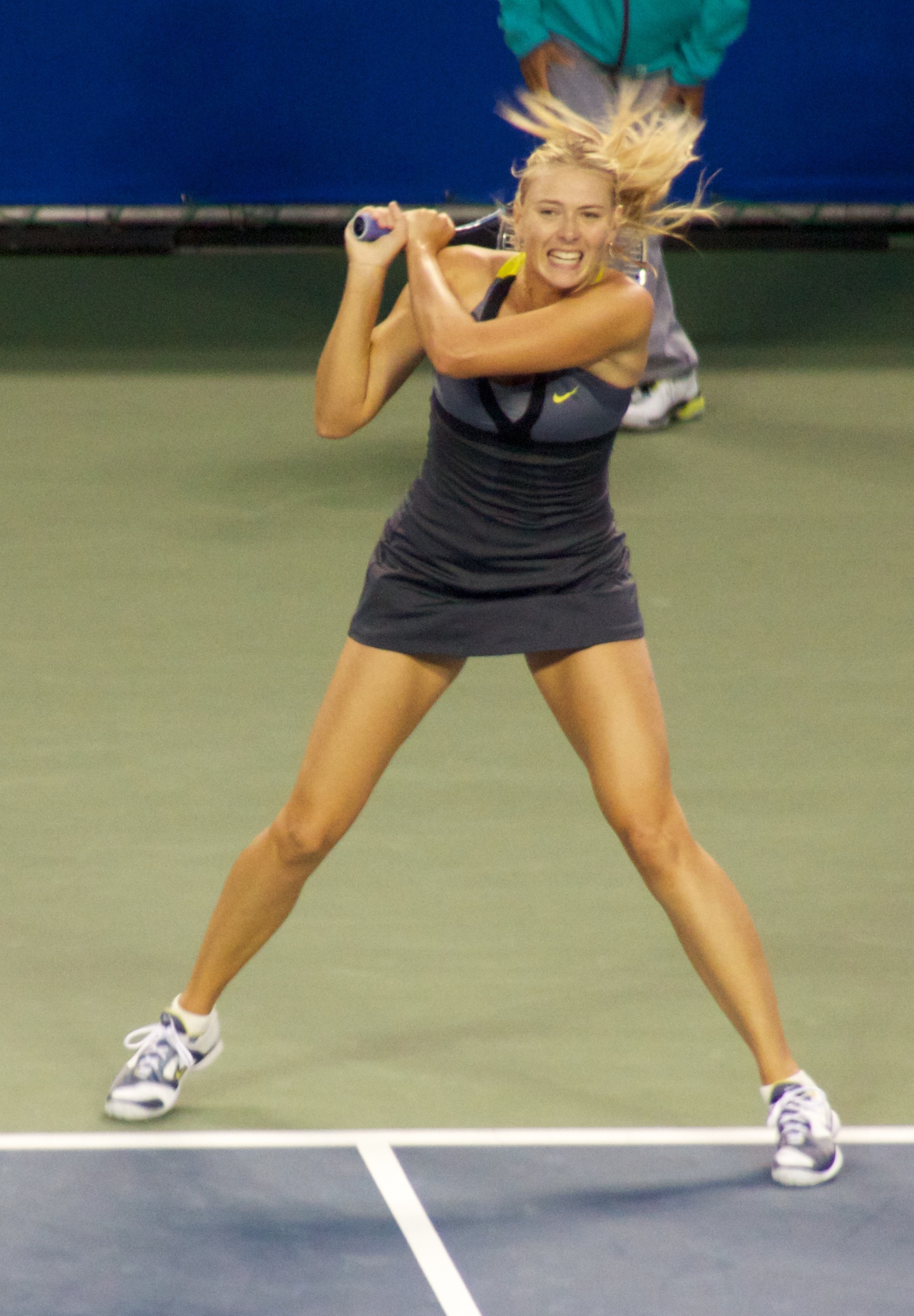 Marija Šarapova at Toray Pan Pacific Open 2011